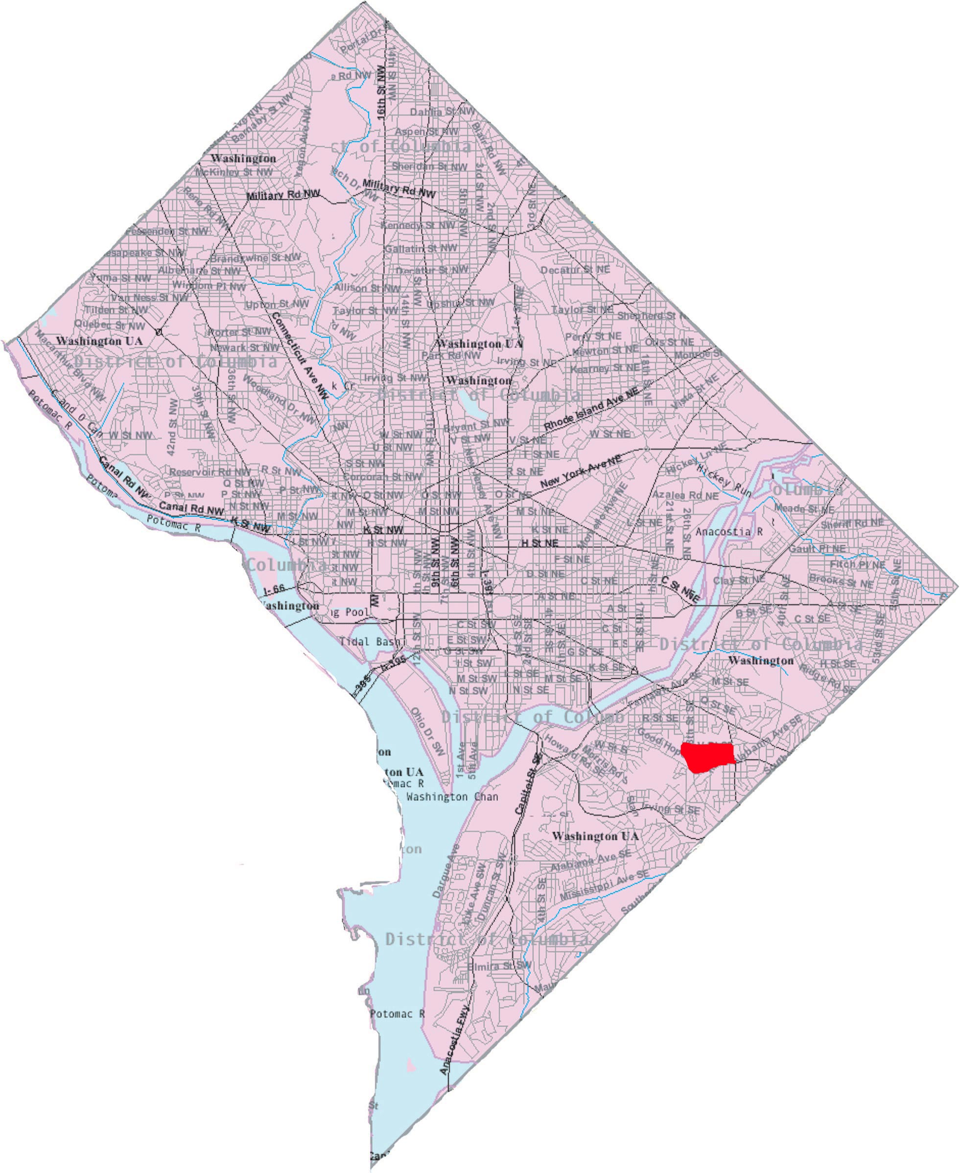 This image is a modified version of a self-generated reference map from the U.S. Census Bureau's American Factfinder at by Wikipedia user Msclguru.